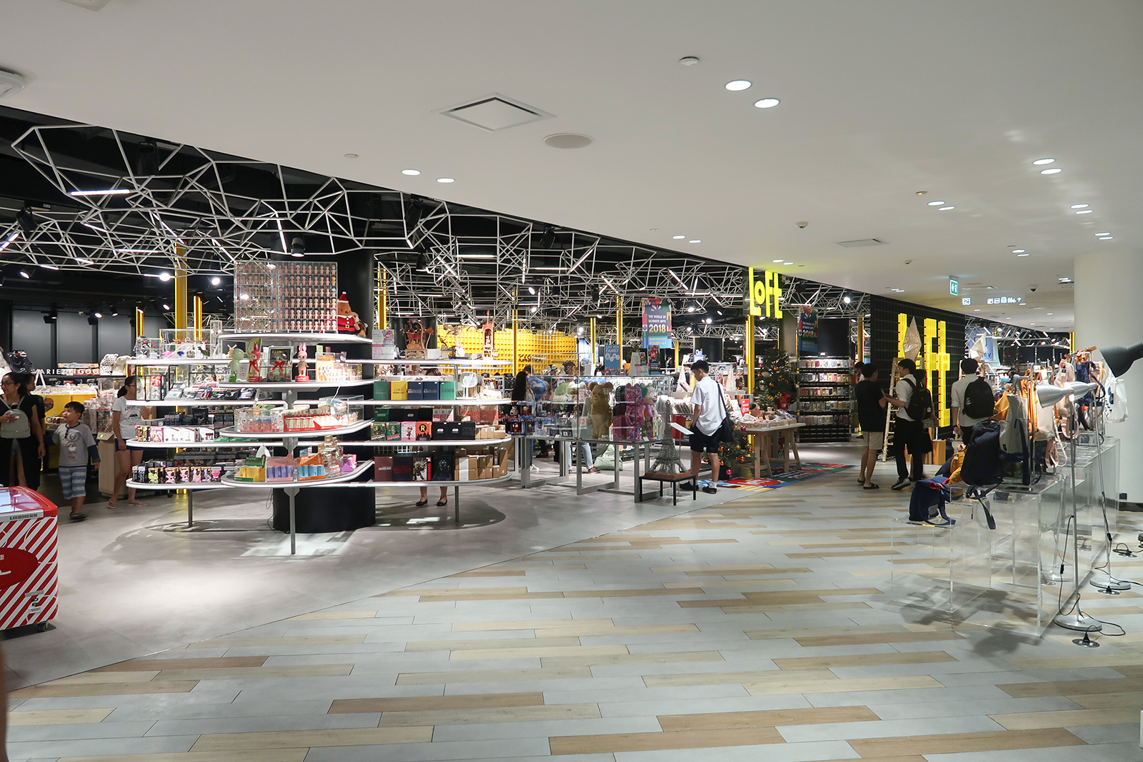 Loft in Siam Discovery